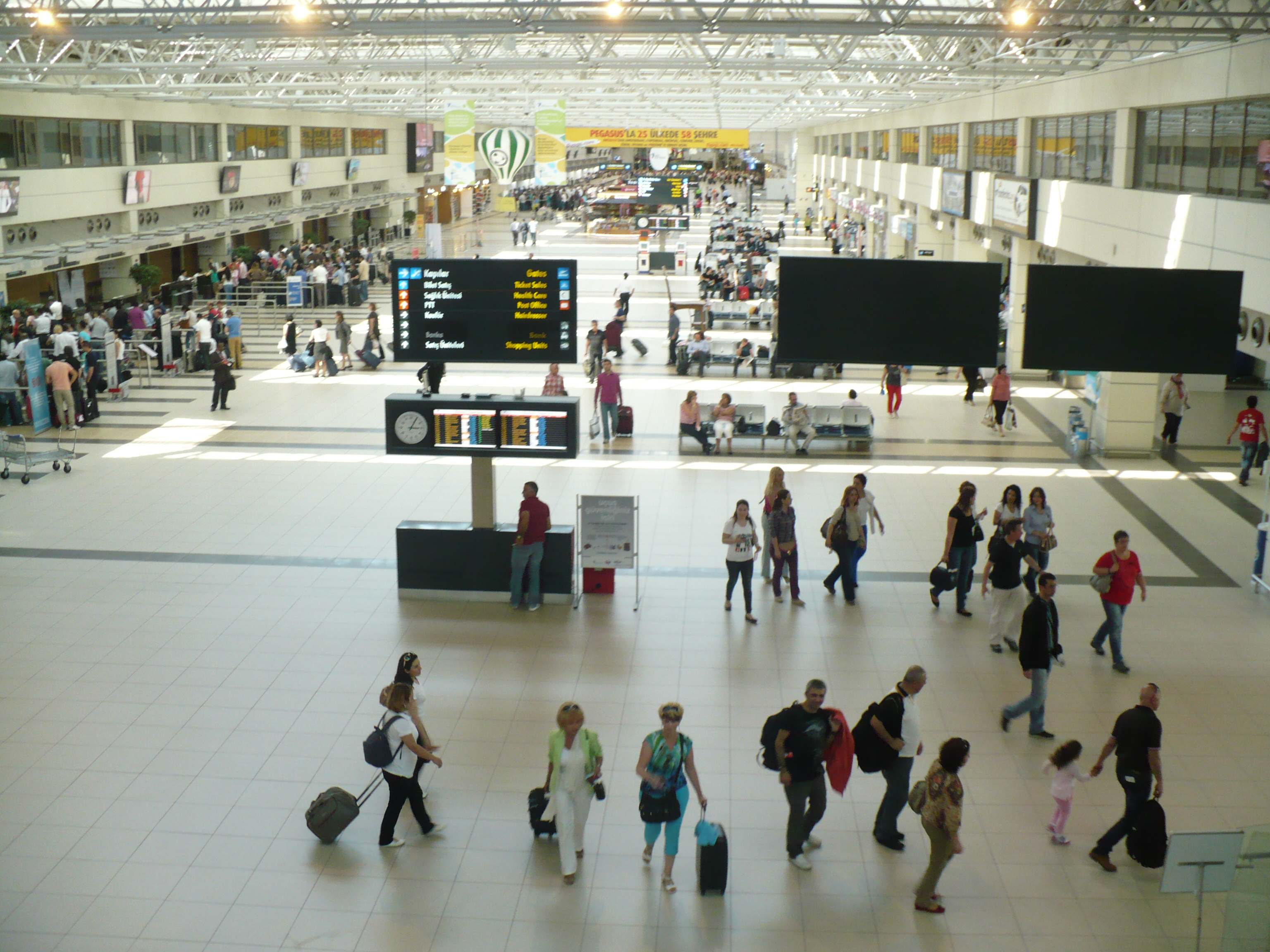 Antalya Airport